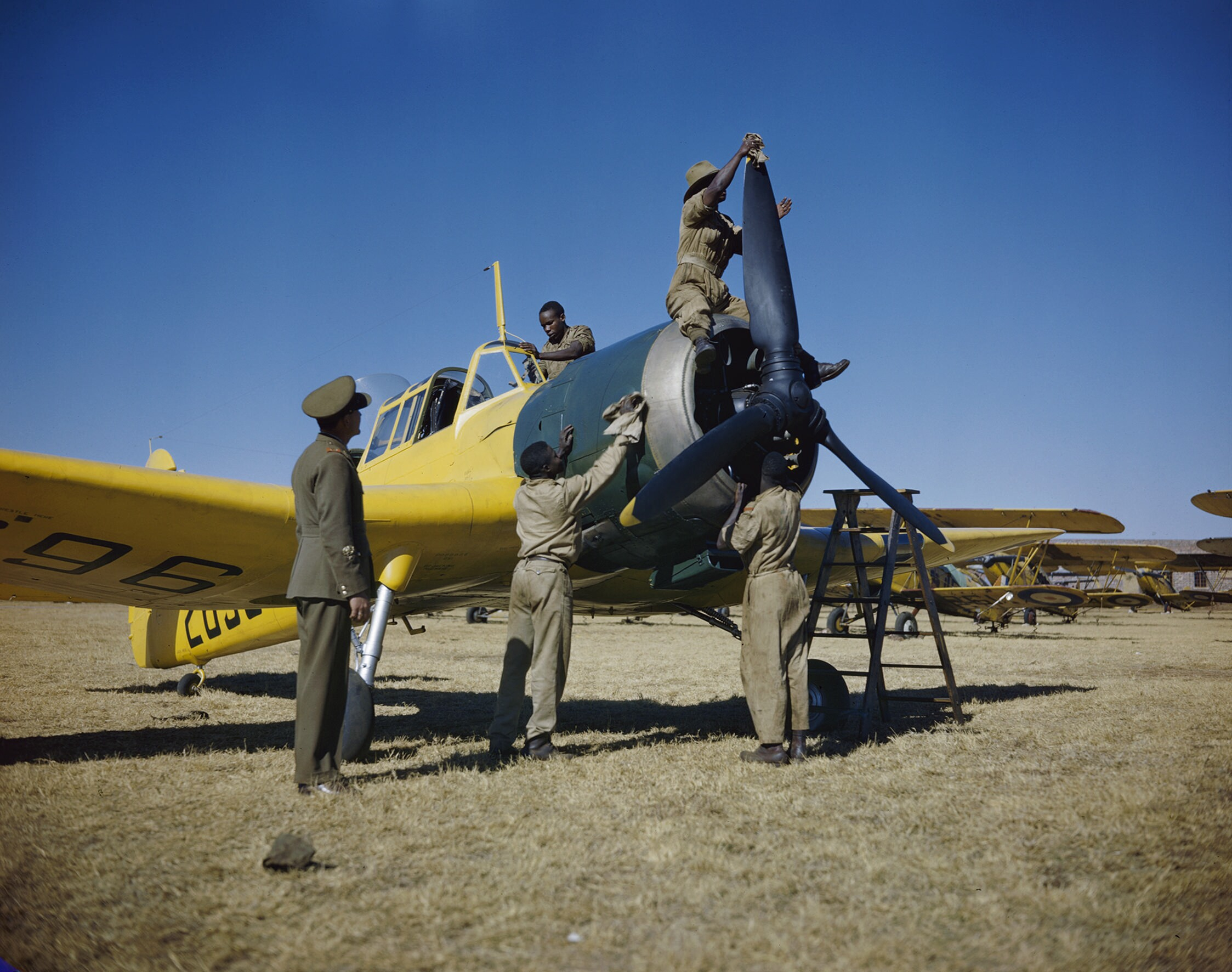 Basuto 'hangar boys' clean and polish a Miles Master at No. 23 Air School at Waterkloof in Pretoria, South Africa, January 1943. Basuto 'hangar boys' clean and polish Miles Master 2036, at Waterkloof.